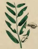 Stainton’s Natural History of the Tineina (1855–1873): Coleophora cracella leaf of Vicia cracca eaten by the larva